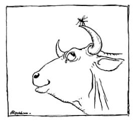 Illustration by Arthur Rackham to the V.S. Vernon-Jones collection of Aesop's Fables, 1912